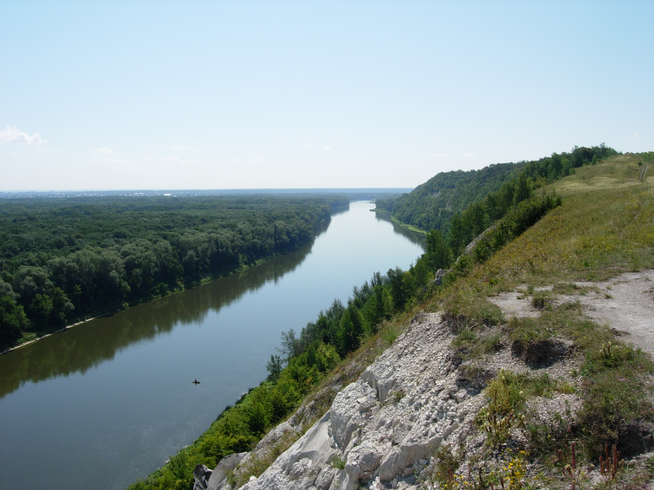 Don river upstream of Pavlovsk